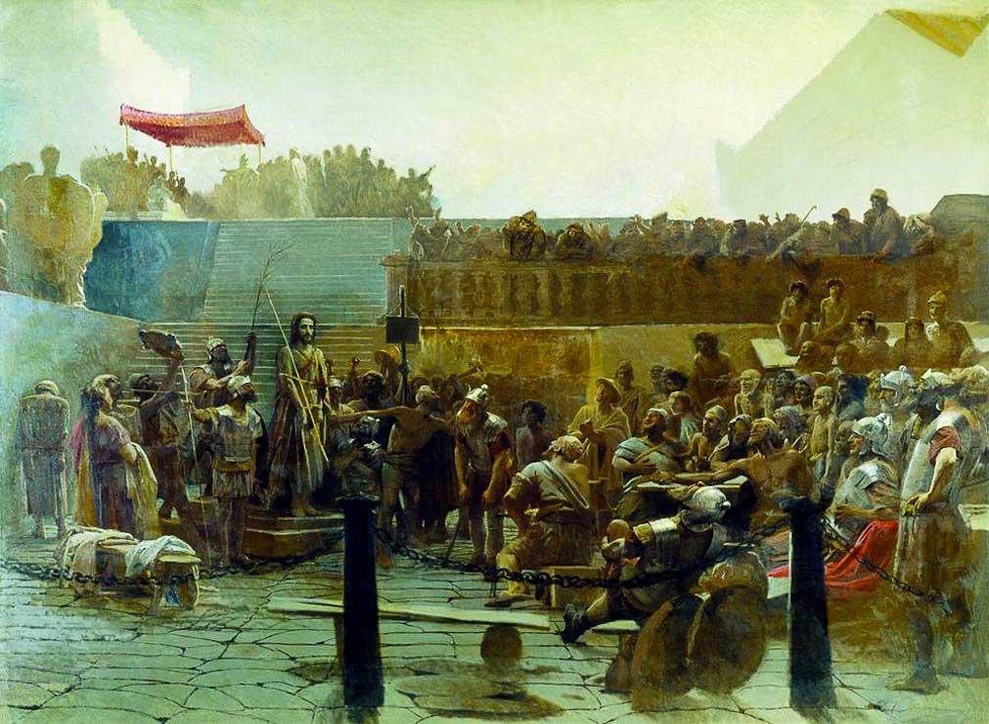 Mocking Christ (painting by Ivan Kramskoi)